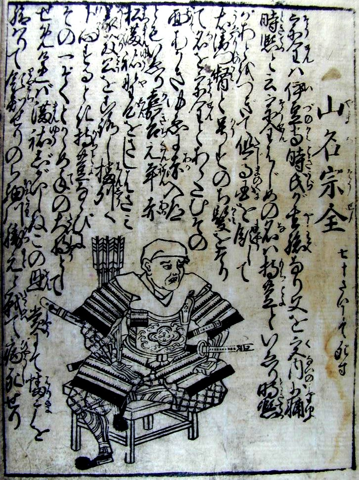 Portrait of Yamana Shôzen